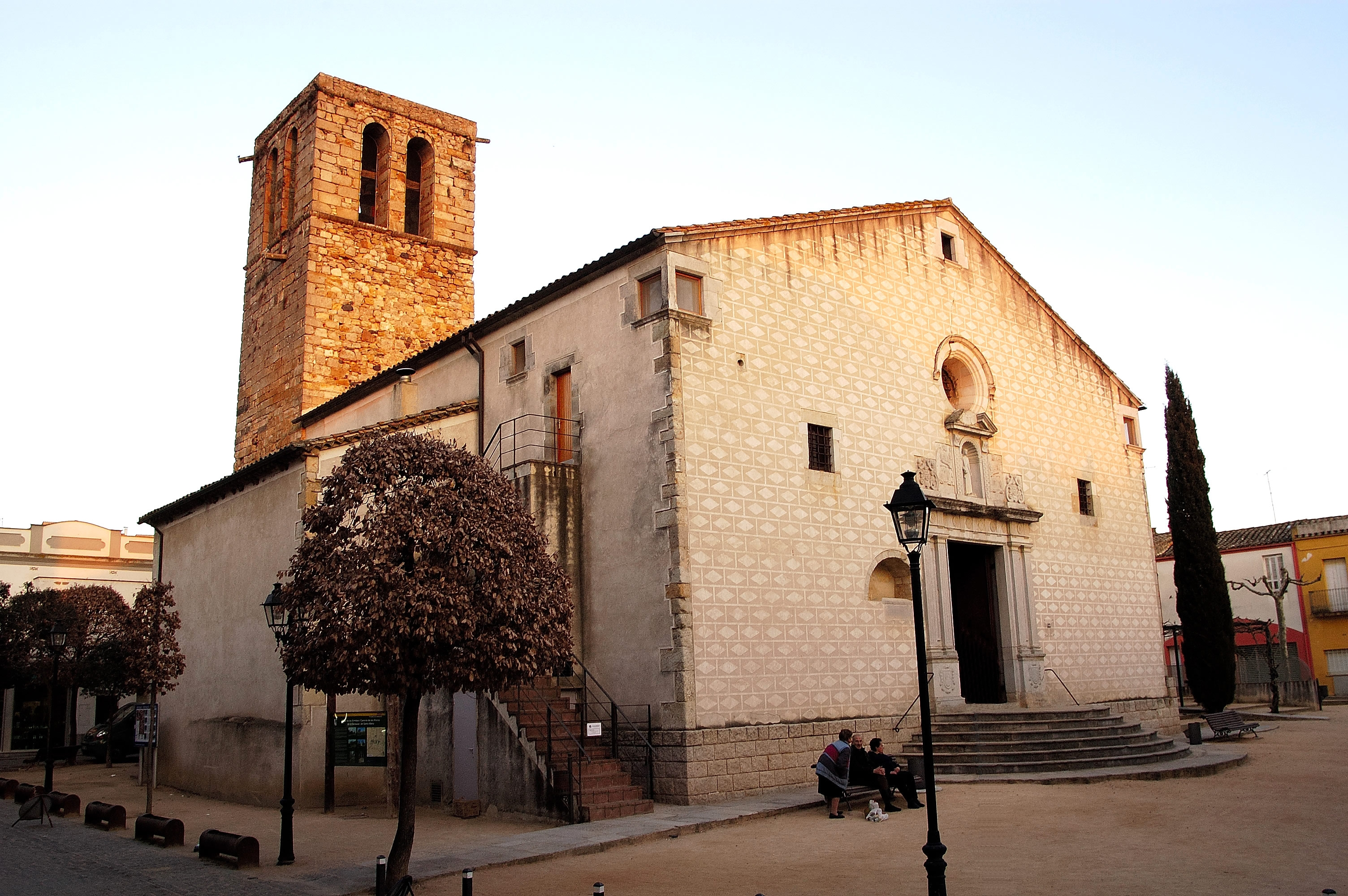 Església parroquial de Sant Esteve